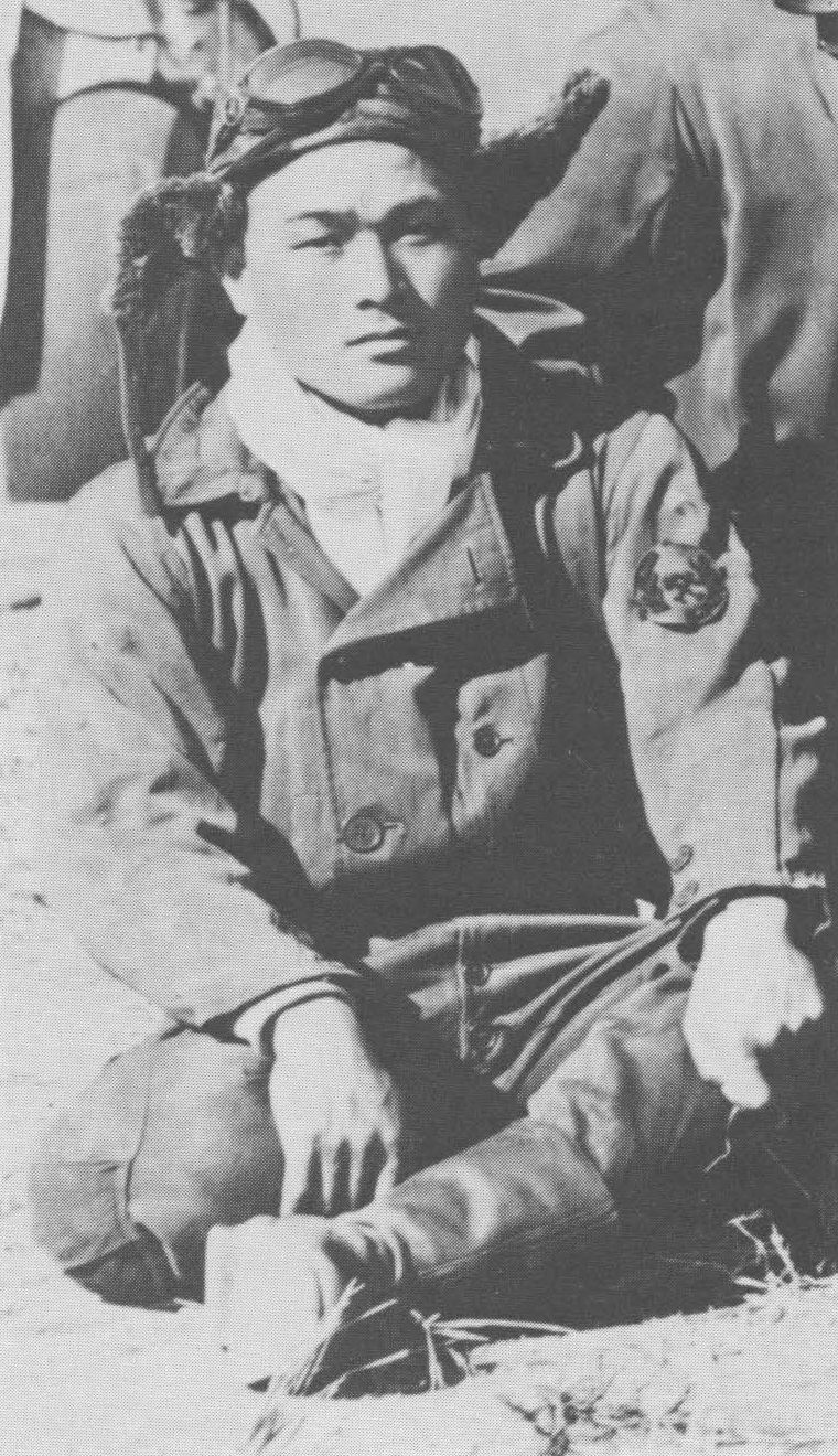 Imperial Japanese Navy fighter ace Ensign Ichiro Yamamoto. He was officially credited with 11 victories in the Pacific War